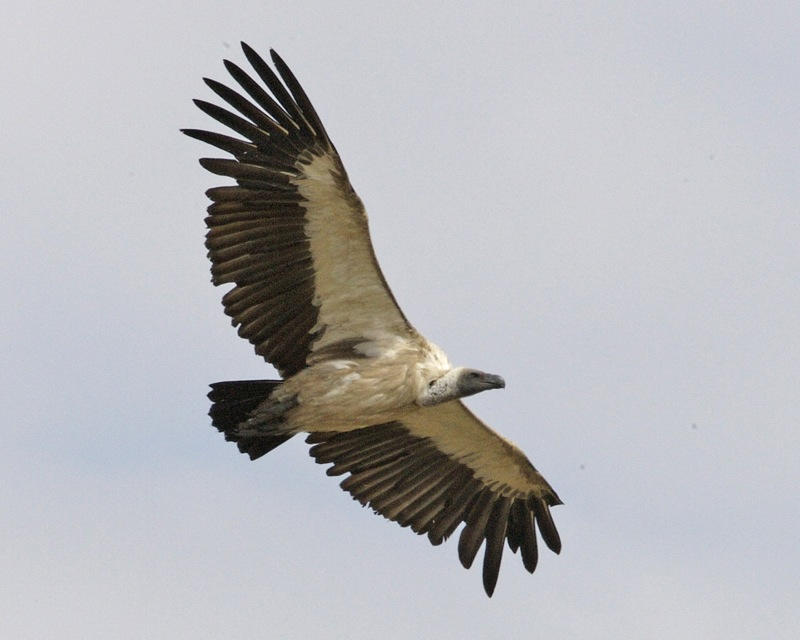 White-backed Vulture Gyps africanus Masai Mara, Kenya August 29, 2008 690V1322